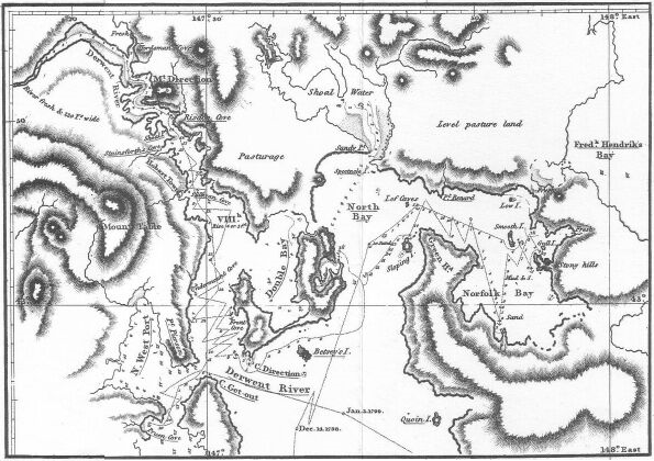 1798 map of Norfolk bay and Frederick Henry Bay (matthew_flinders)